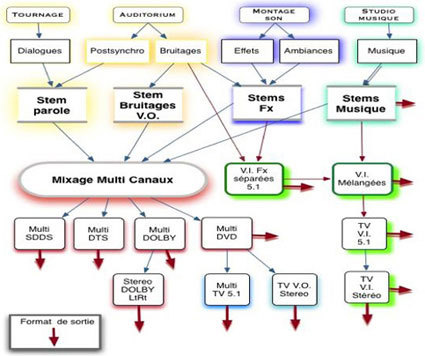 mixage film synopsis